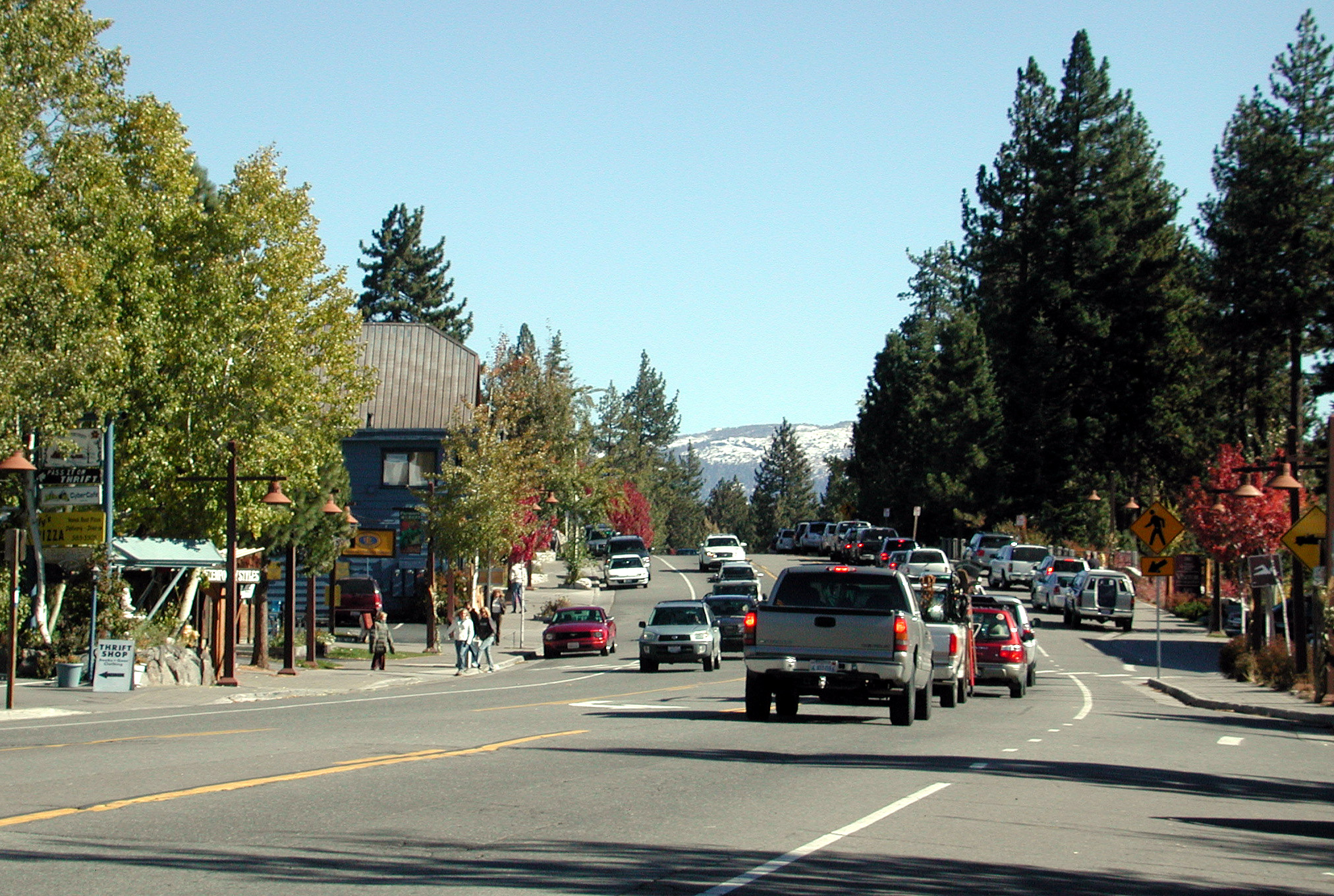 North Lake Boulevard (California State Route 28), in Tahoe City, California — looking northeast.